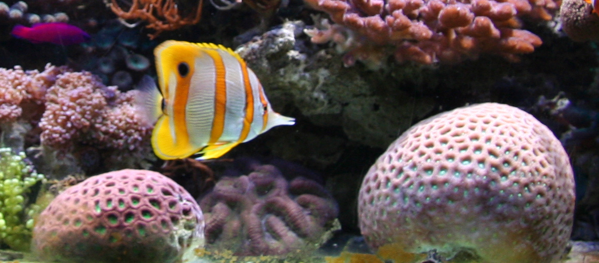 Favia (left) and Favites (right) corals and Chelmon rostratus fish.